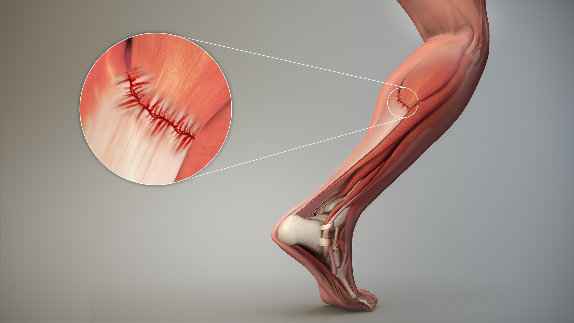 3D medical animation still showing tearing of muscle fibers.